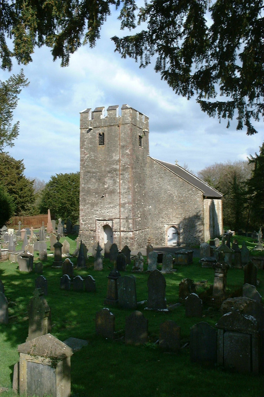 St David's church, Llanarthney